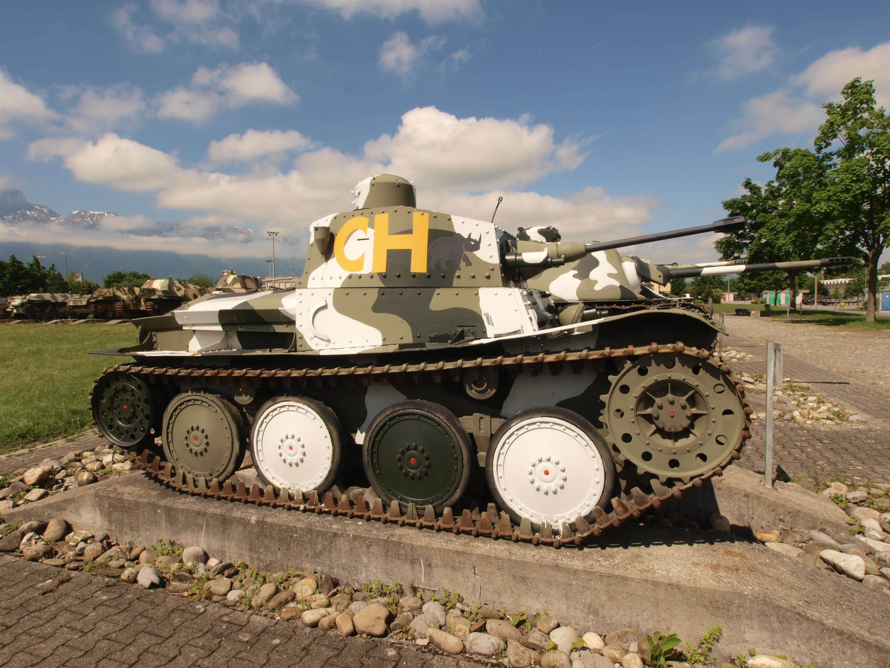 Photographed at the army base Thun, Switserland.